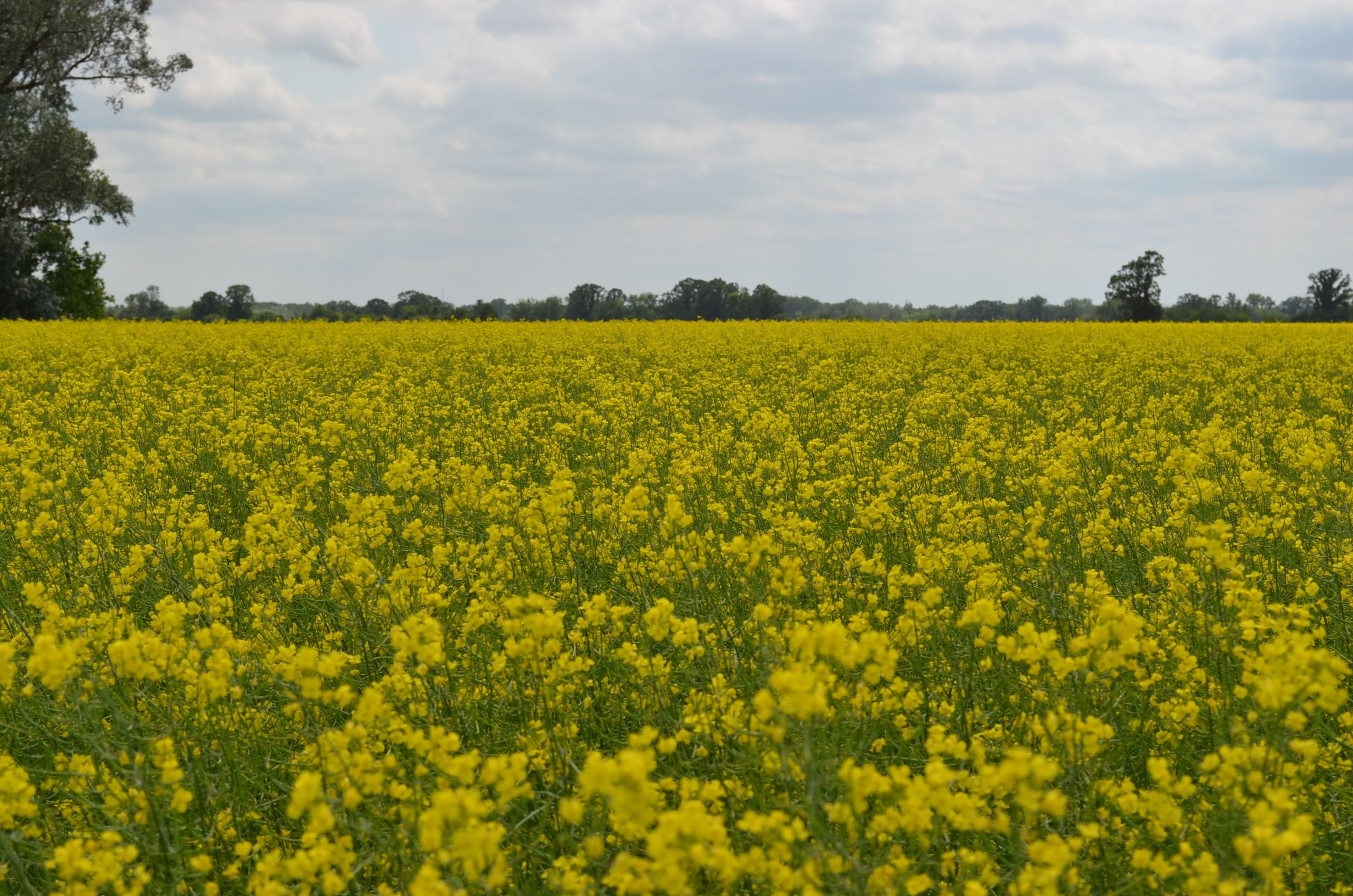 Canola field in Manitoba, Canada